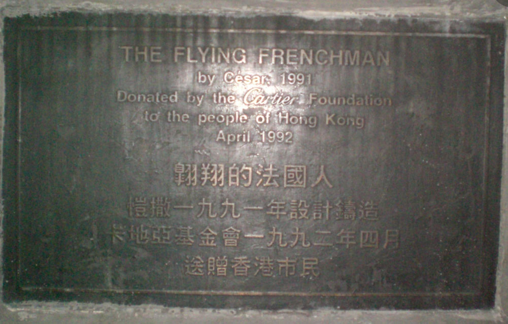 The Flying Frenchman is a sculpture made by the late French sculptor César Baldaccini. This monument is located at Hong Kong Cultural Centre, Tsim Sha Tsui, nearby the Clock Tower. It was donated by the Cartier Foundation to Hong Kong in April 1992.